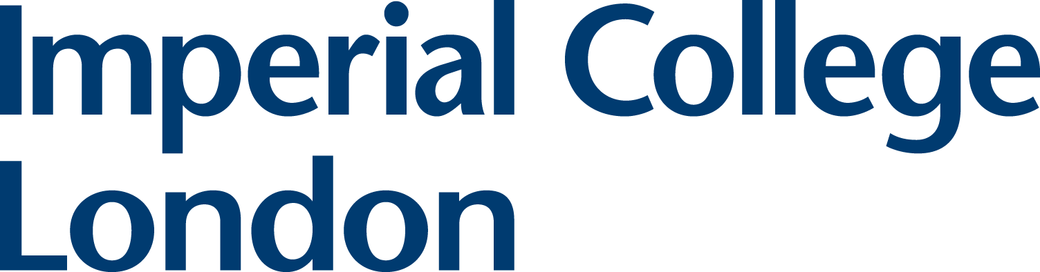 Imperial College Logo